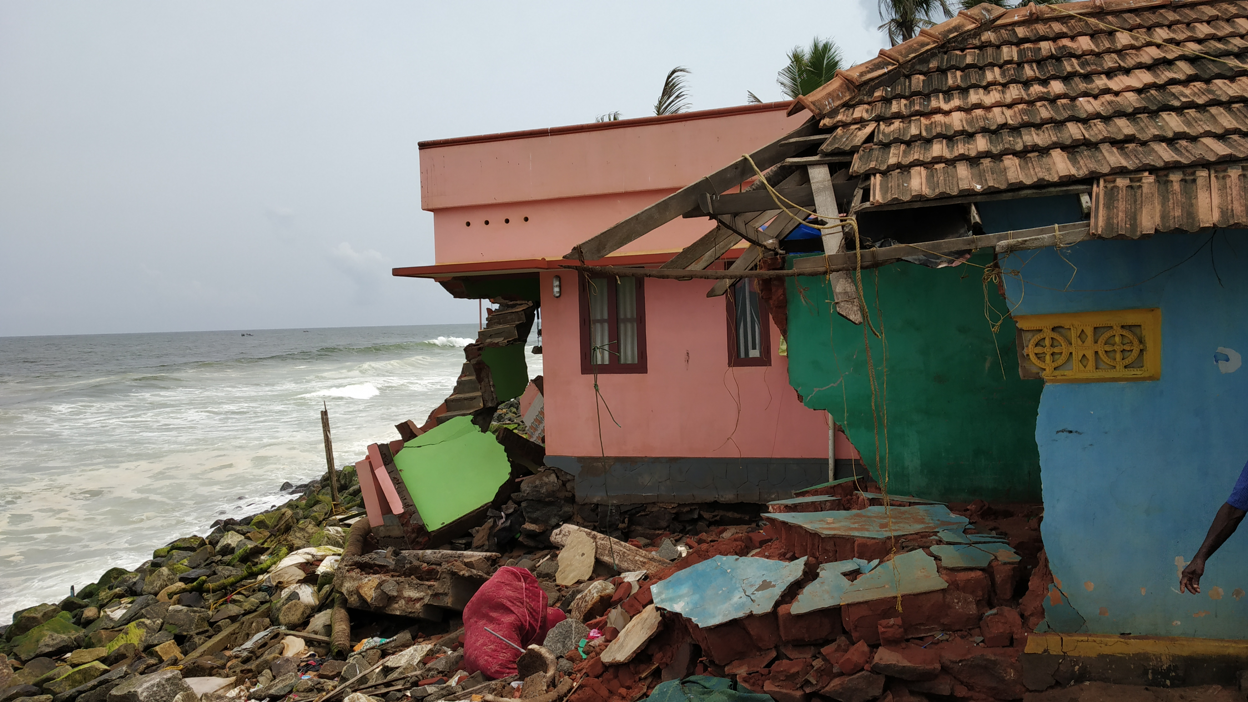 Sea erosion affecting lives...